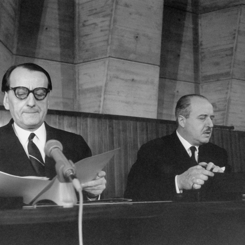 André Malraux (left) and Vittorino Veronese at UNESCO, salvage of Nubia monuments, International campaign